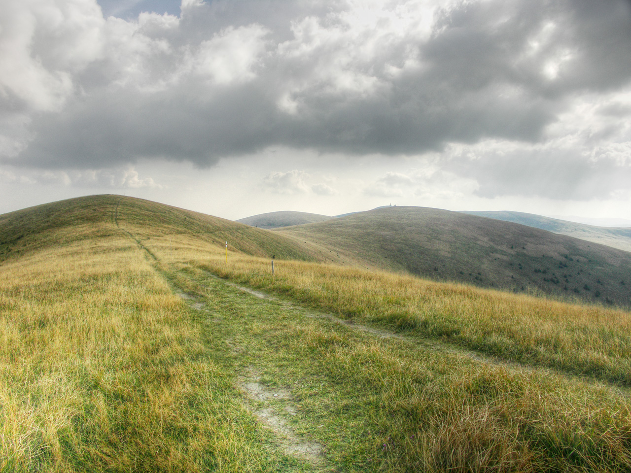 Ostredok in the Veľká Fatra, Slovakia, North-Western slope; Križná in the distance